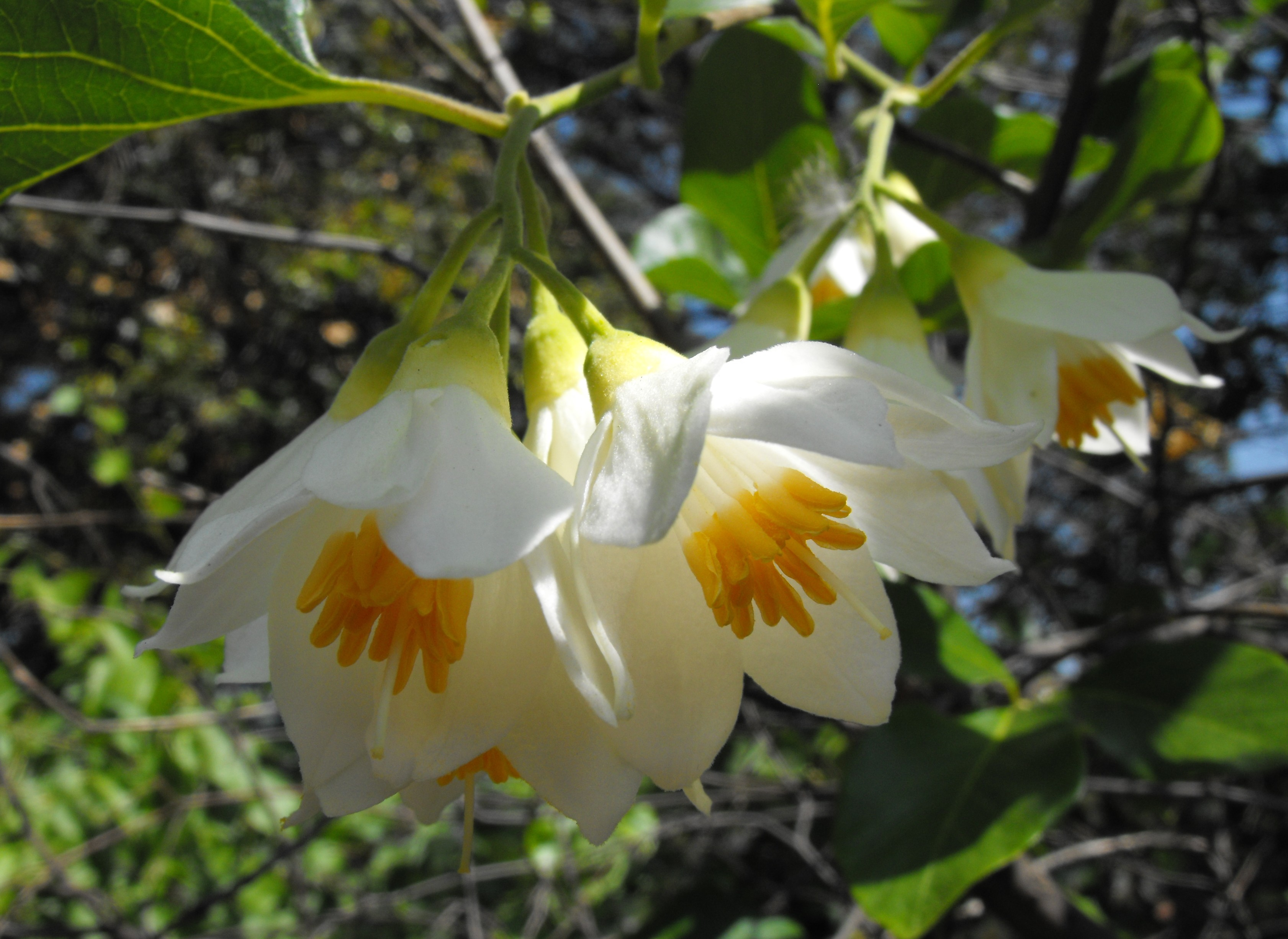 Styrax officinalis at Rancho Santa Ana Botanic Garden in Claremont, California, USA. Identified by sign.